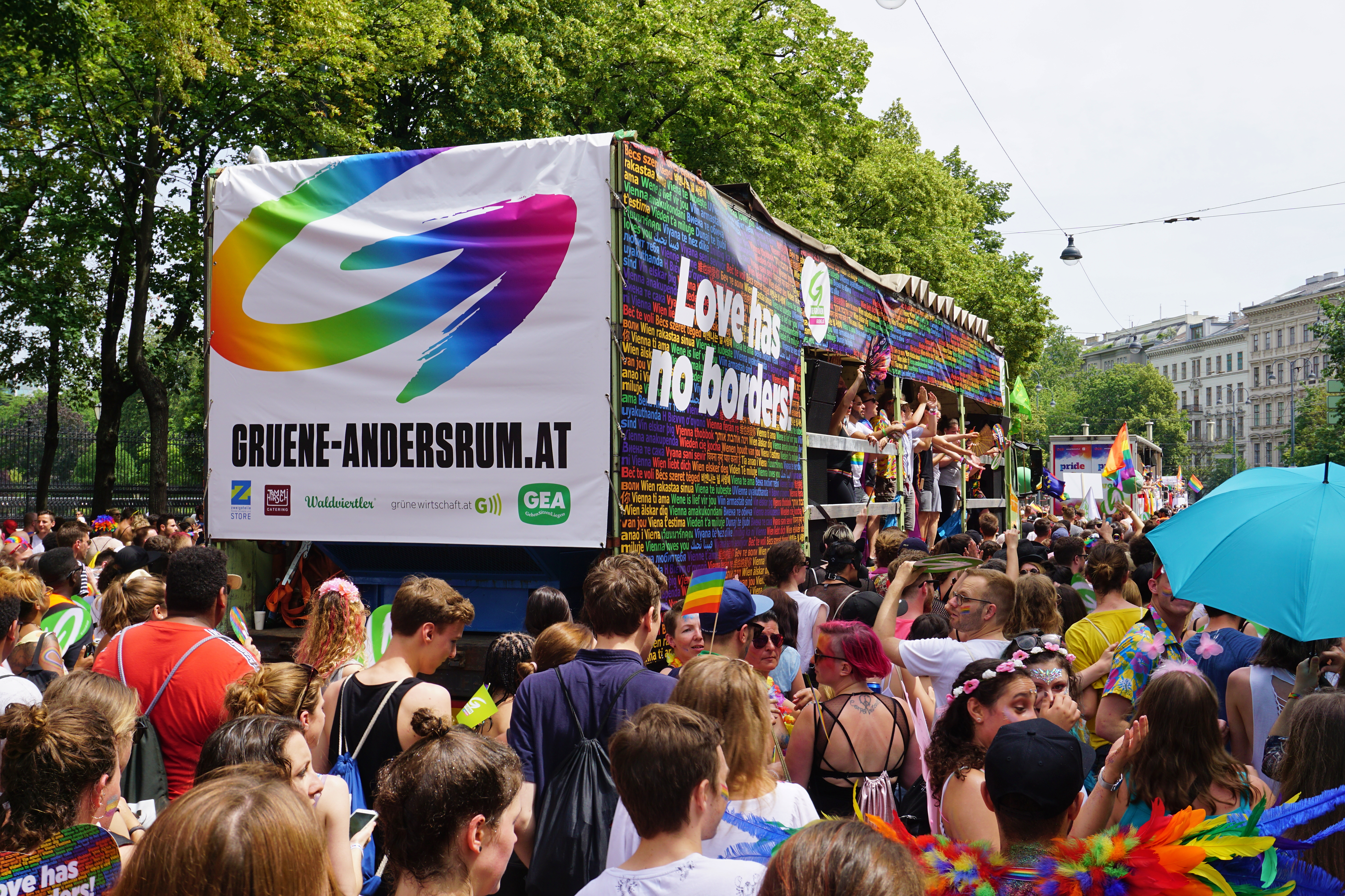 Regenbogenparade 2019